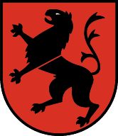 Source: "Fahnen-Gärtner GmbH, Mittersill" This file depicts a coat of arms. The composition of coats of arms are generally public domain with respect to copyright laws, and may be reproduced freely. This corresponds to the international traditional usage, and is explicitly stated in some national copyright laws. Some compositions, of more recent origin, may be copyrighted. This is not a valid license as such, being a "public domain" statement for the coat of arms definition only. It must be completed with the copyright tag associated to the picture creation. See Commons:Coats of arms for further information. Please note that this applies only to the coat of arms definition (composition / description). The representation of a coat of arms is an artistic creation, subject as such to copyright laws. Restriction of use - Legal notice: Most of the time, the usage of coats of arms is governed by legal restrictions, independent of the status of the depiction shown here. A coat of arms represents its owner. Though it can be freely represented, it cannot be appropriated, or used in such a way as to create a confusion with or a prejudice to its owner. Usage on Commons: Please provide licence information for the coat of arm representation, information for the author of the picture, and the source if not self-made work. This image is in the public domain according to Austrian copyright law because it is part of a law, ordinance or official decree issued by an Austrian federal or state authority, or because it is of predominantly official use. (§7 UrhG) To uploader: Please provide where the image was first published and who created it.